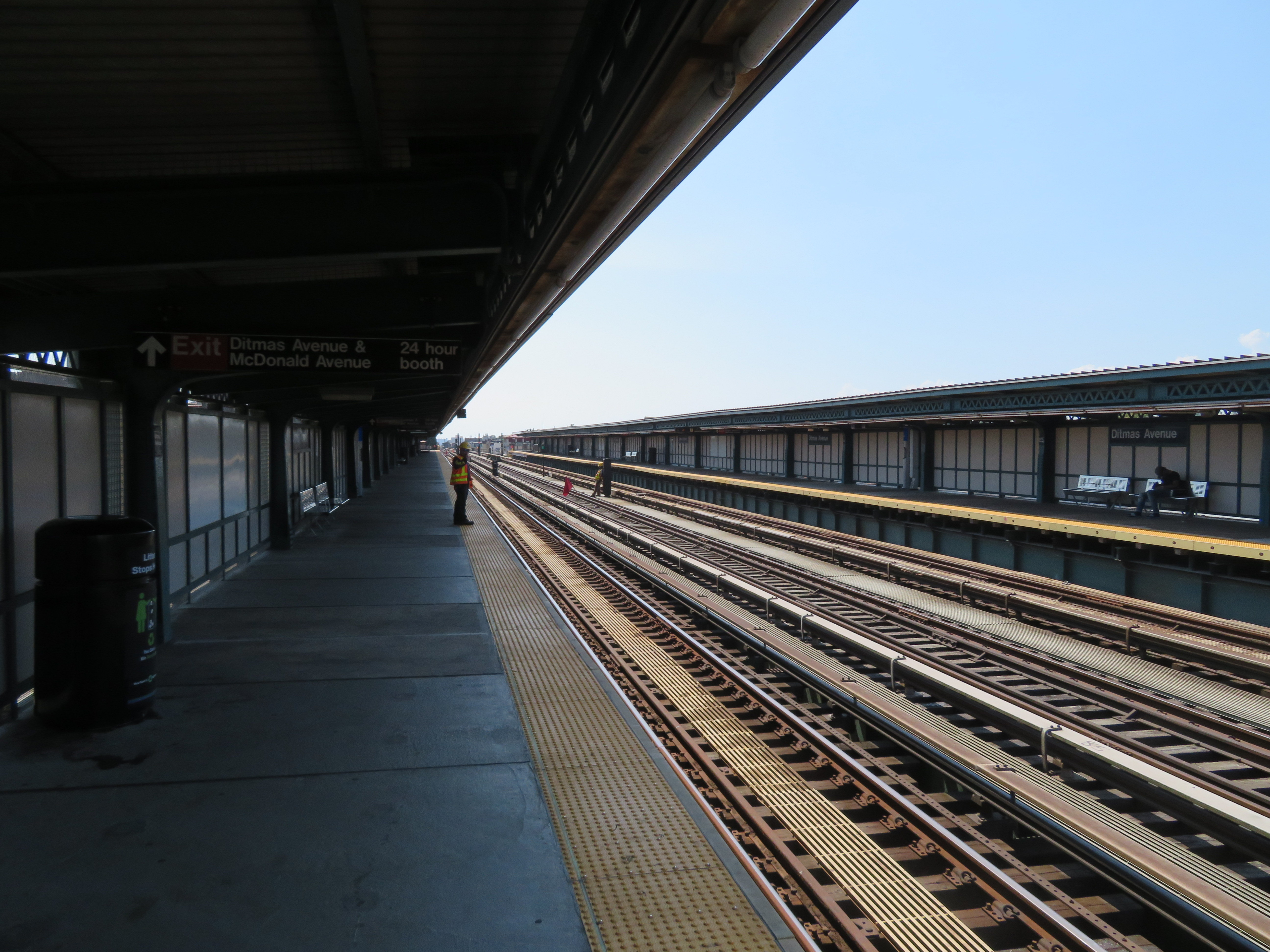 Ditmas Avenue station viewed from the Manhattan-bound platform in September 2018